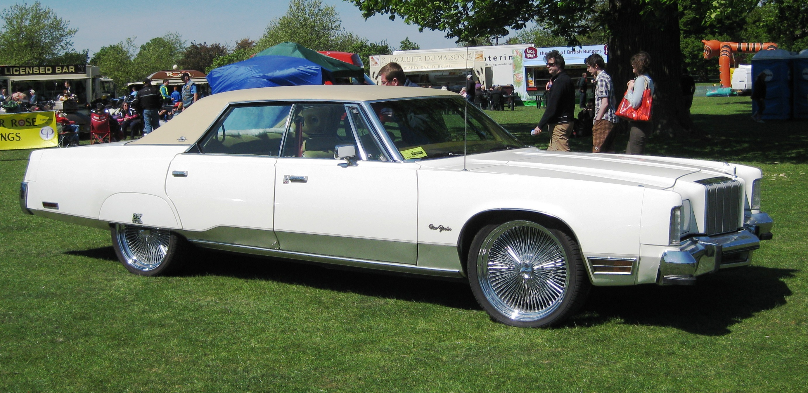 Chrysler New Yorker at Woburn